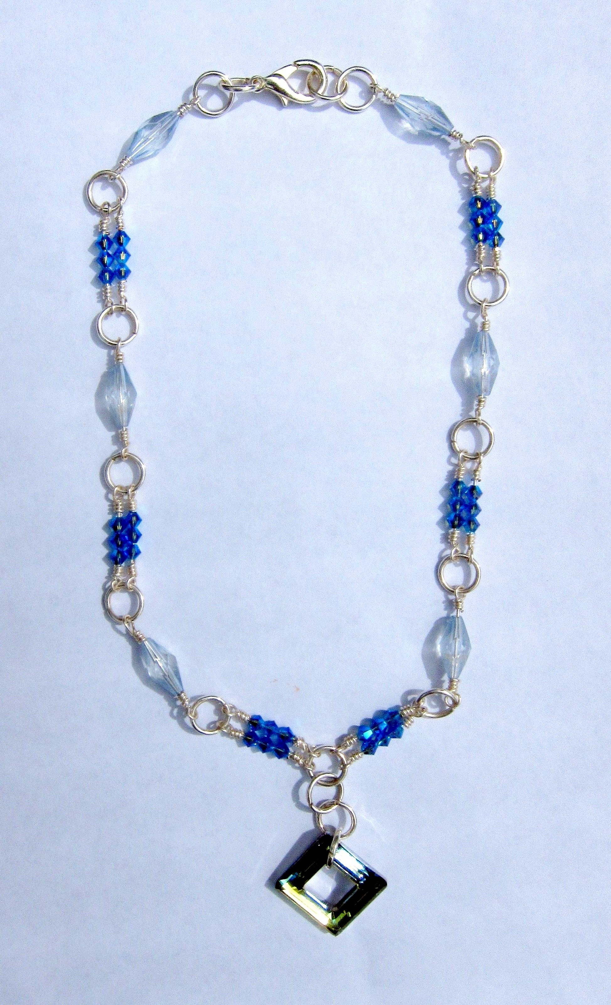 Blue necklace, assembled by myself and my wife, using glass beads, silver-plated wire and silver-plated jump rings. The pendant is glass. On either side of the blue beads the silver wire shows a technique called “wrapping”, where the wire end is coiled into what looks like a spring. The clasp is called a lobster clasp.